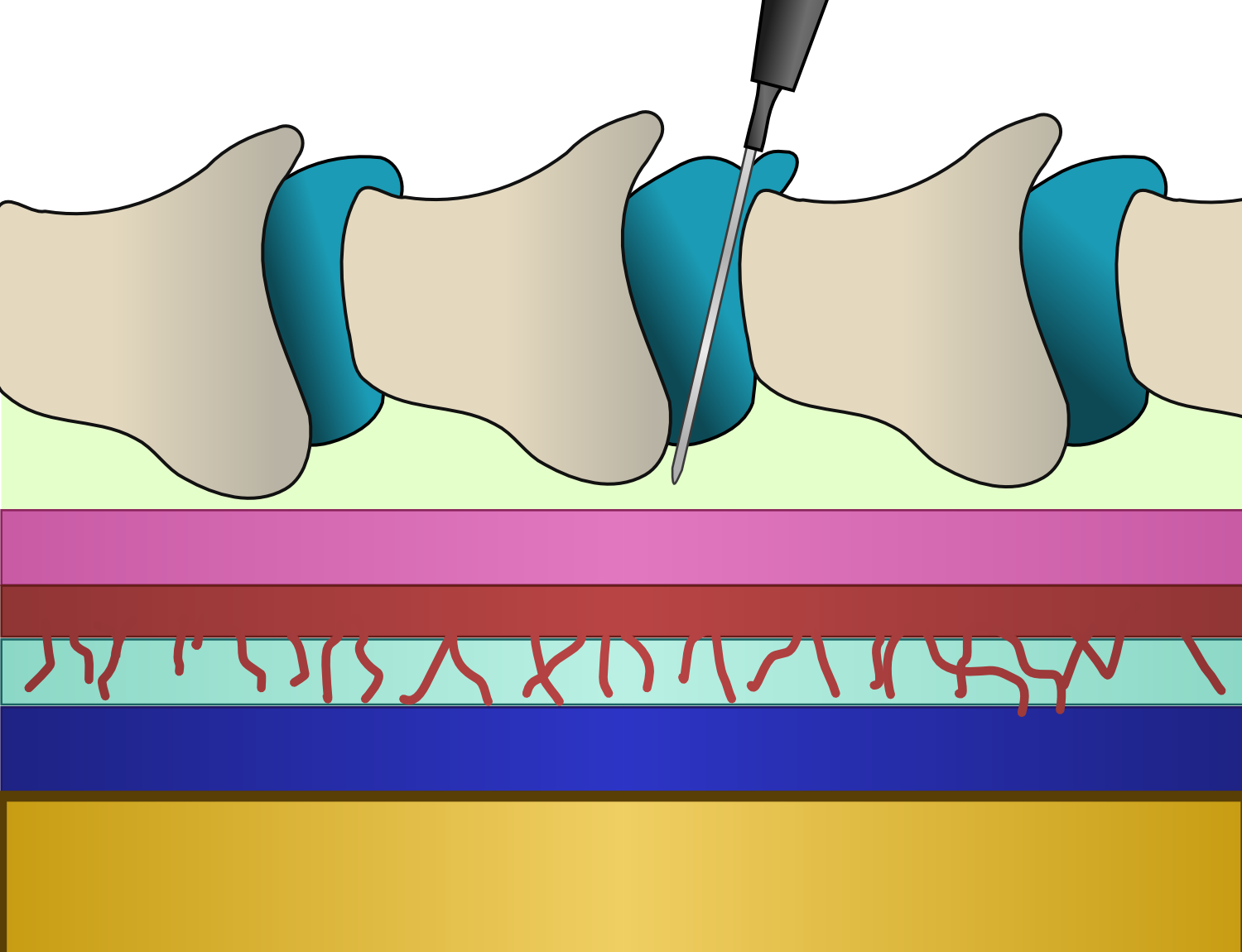 A diagrammatic representation of a longitudinal sagittal section through the spinal column and associated tissues. Based on a similar image, released under the Creative Commons Attribution 3.0 License, created by Dale Rosenbach, DMD.